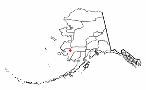 Adapted from Wikipedia's AK borough maps by Seth Ilys.